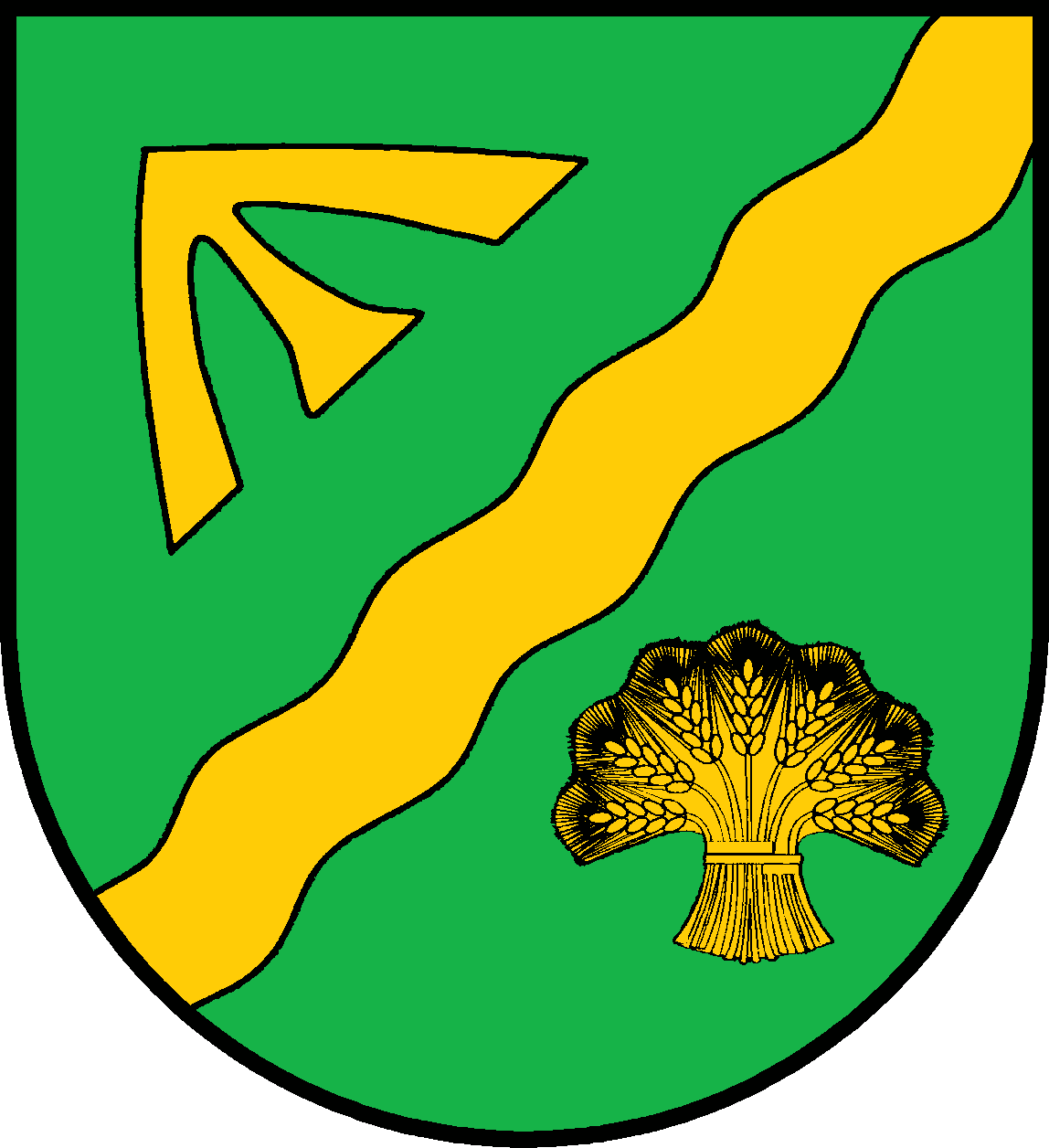 Coat of arms of the municipality Grinau in Schleswig-Holstein, Germany.